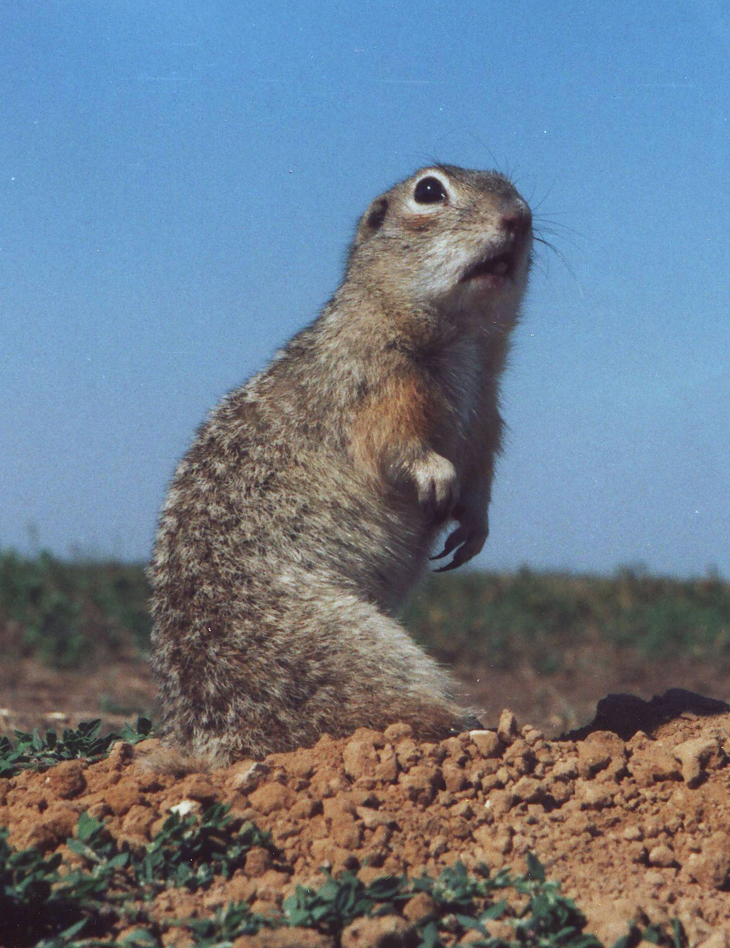 Speckled ground squirrel near its burrow. Odesa oblast, Ukraine.